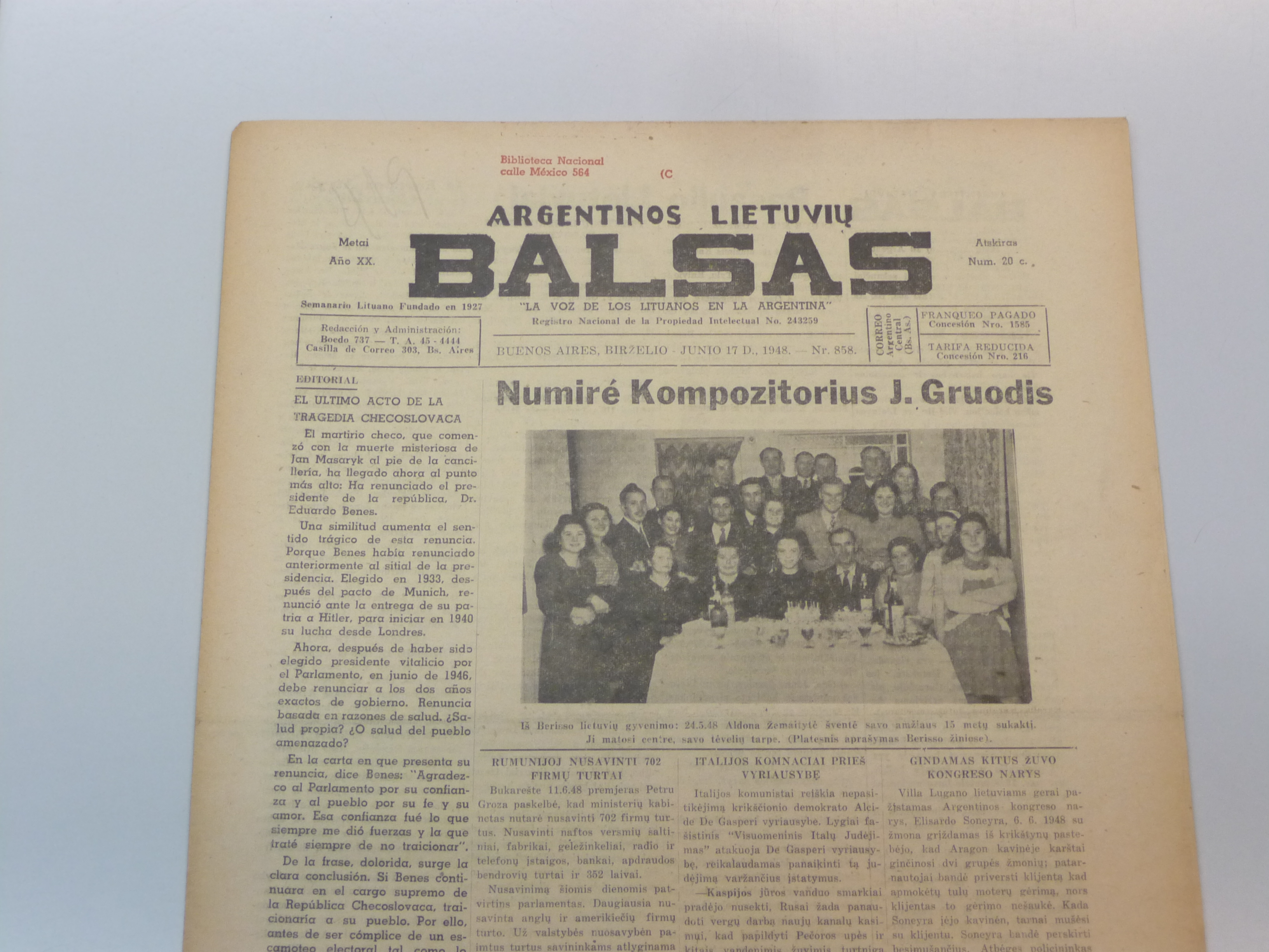 Lithuanian press in Argentina